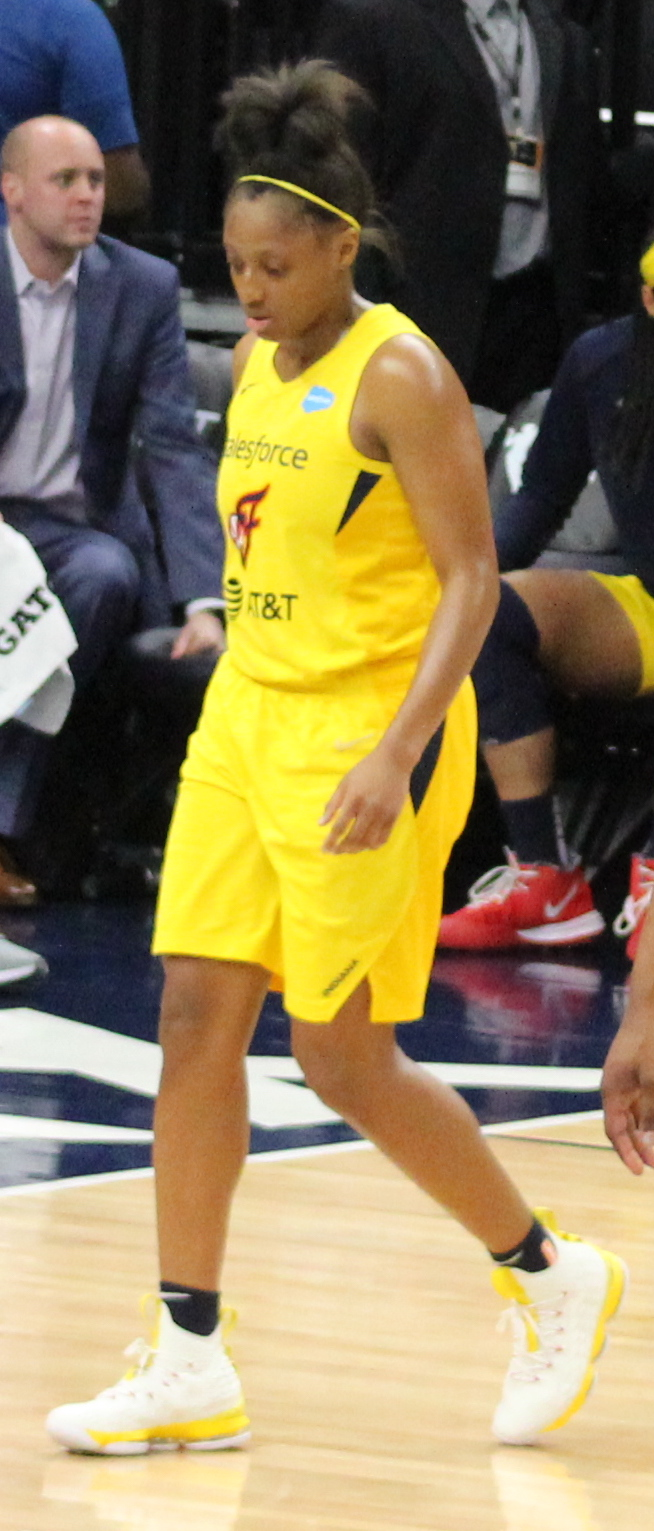 Kelsey Mitchell of the Indiana Fever